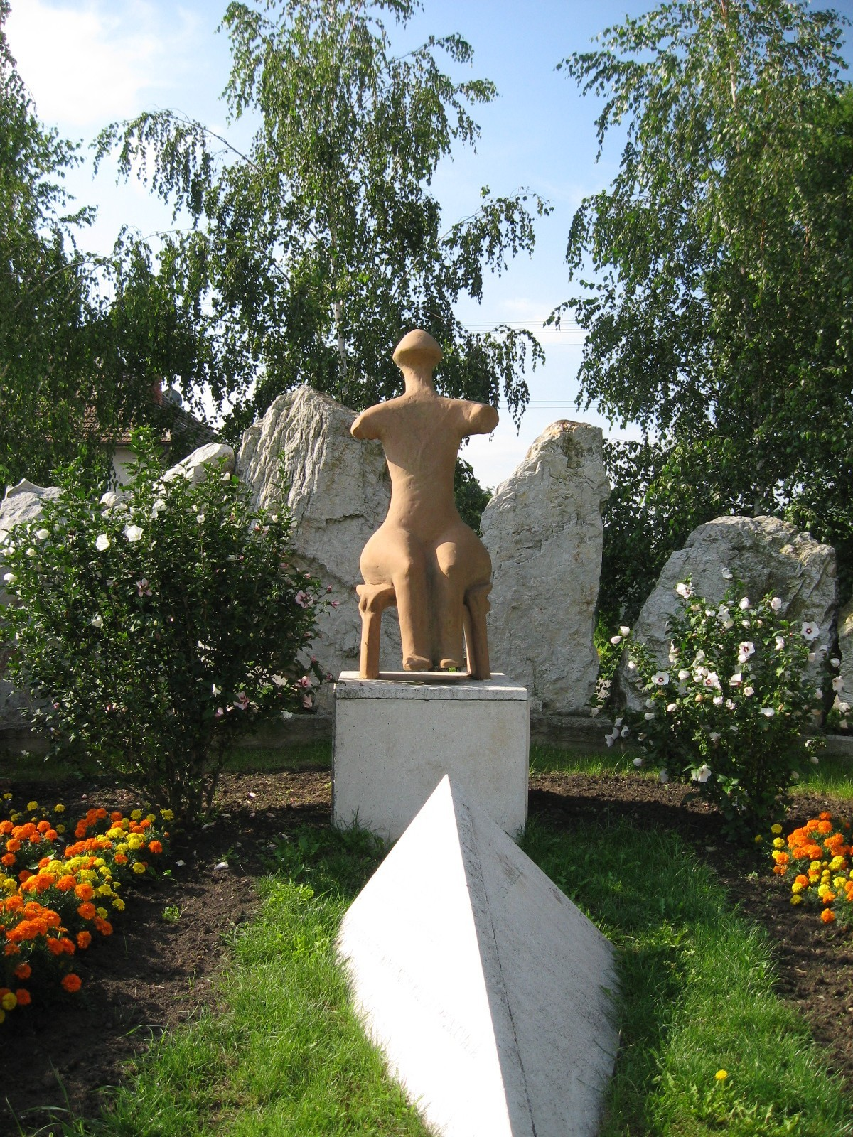 The copy of Venus statue from Nitriansky Hrádok, quarter of Šurany, Slovakia.